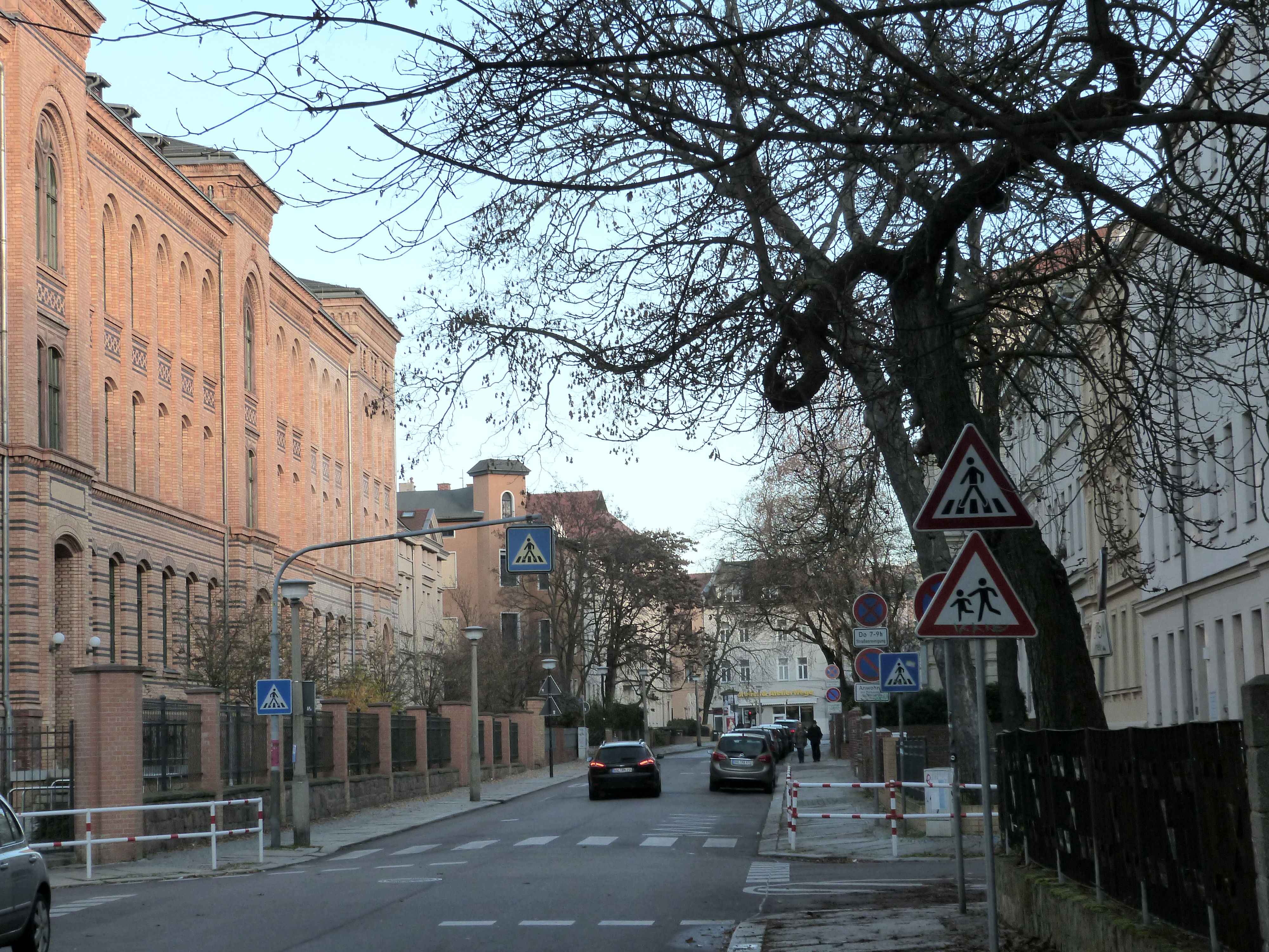 Hermannstrasse in Halle (Saale), Saxony-Anhalt